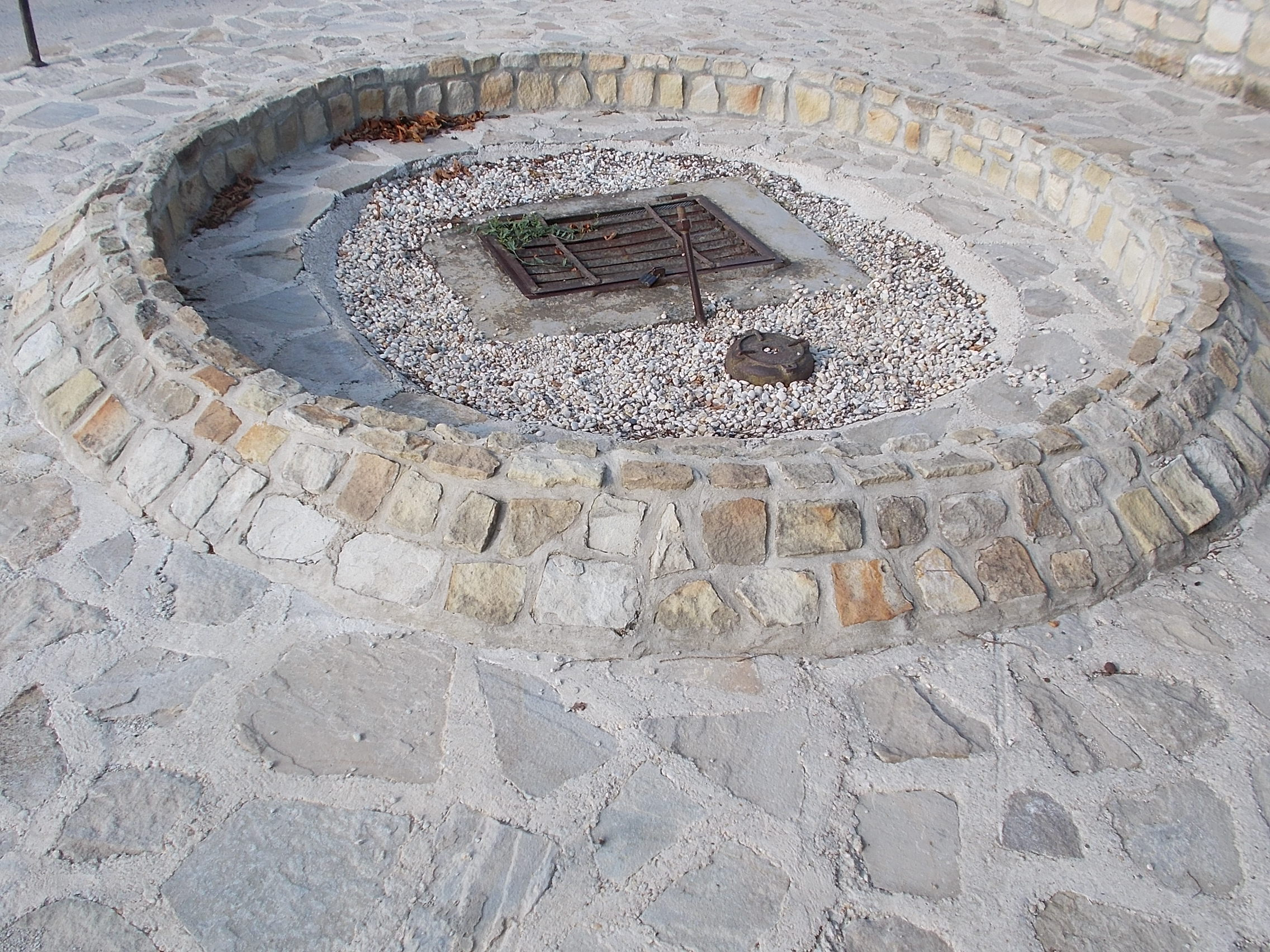 Wellcave, entrance cover. - Cserszegtomaj, Zala County, Hungary.